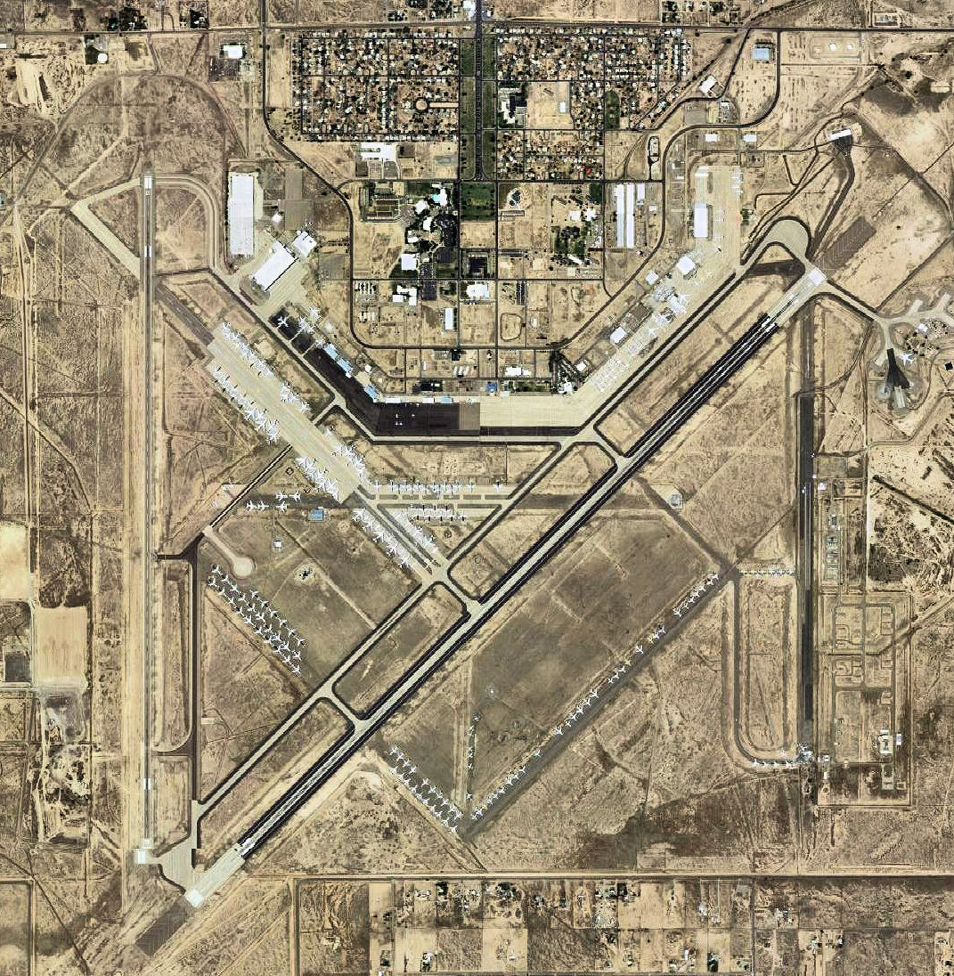 USGS digital orthophoto of Roswell International Air Center in New Mexico